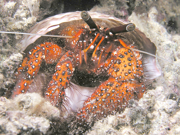 Red Hermit Crab, Papua New Guinea. Image taken by Clark Anderson/Aquaimages.